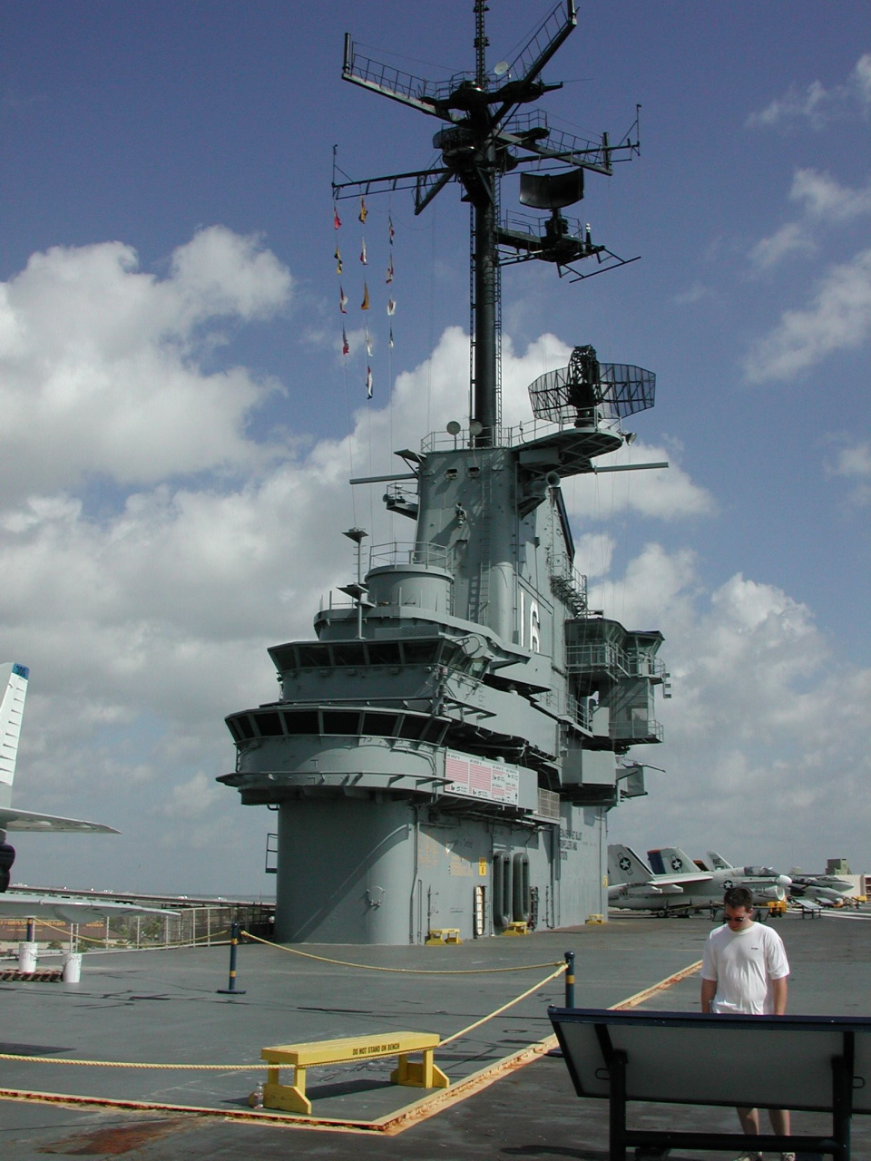 Another island view